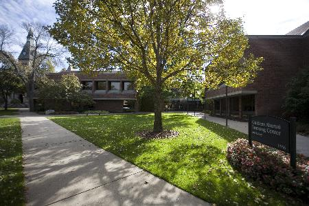 A photo of Hamline University's Gidden's Alumni Learning Center and green space.